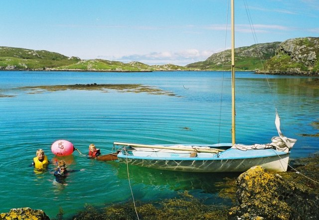 Hintinish Bay, Hellisay in the southern Outer Hebrides of Scotland. The clear waters of the narrow sound between Hellisay and Gighay, provide perfect shelter for a small boat.